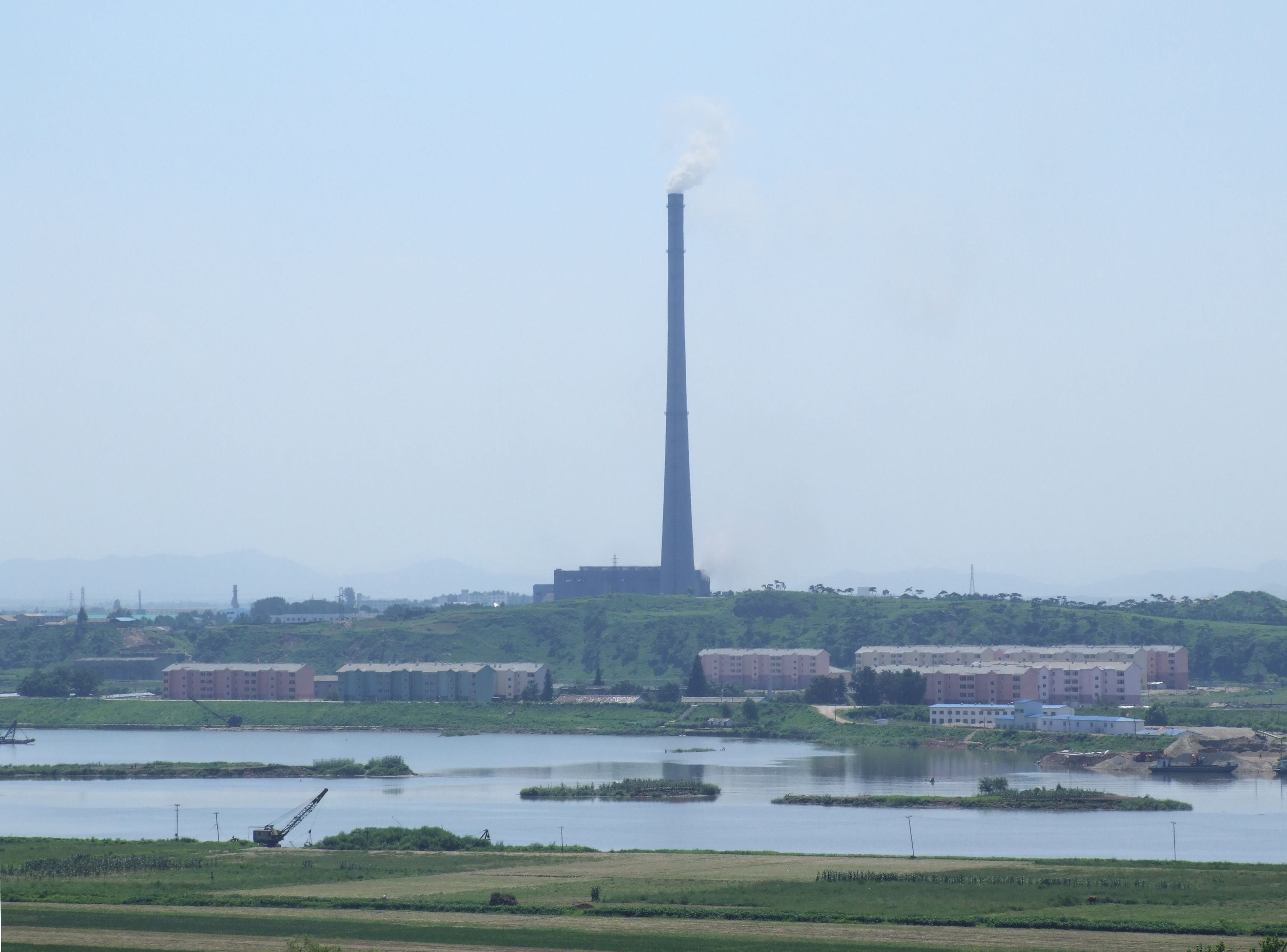 East Pyongyang Thermal Power Station